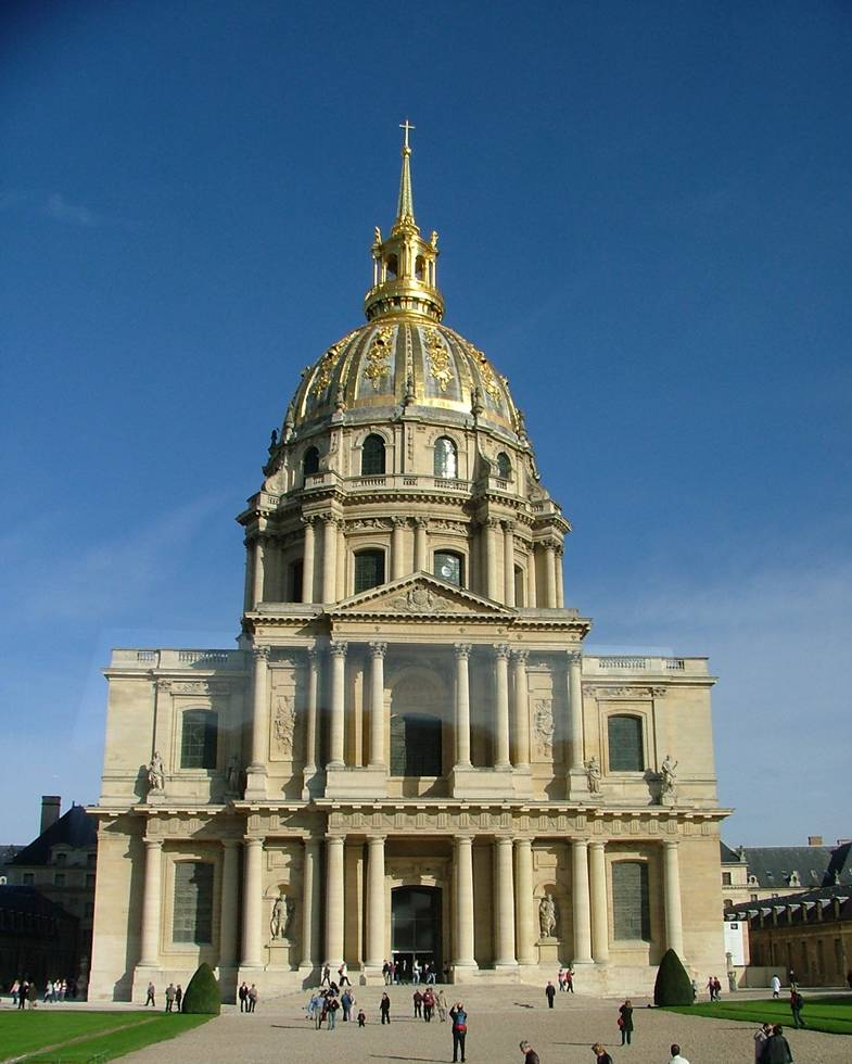 Les Invalides in Paris by Jules Hardouin-Mansart (1676). Photo taken by Martin Leng in October 2006. Replaces a smaller, lower-quality version taken in 2003. Released to public domain.